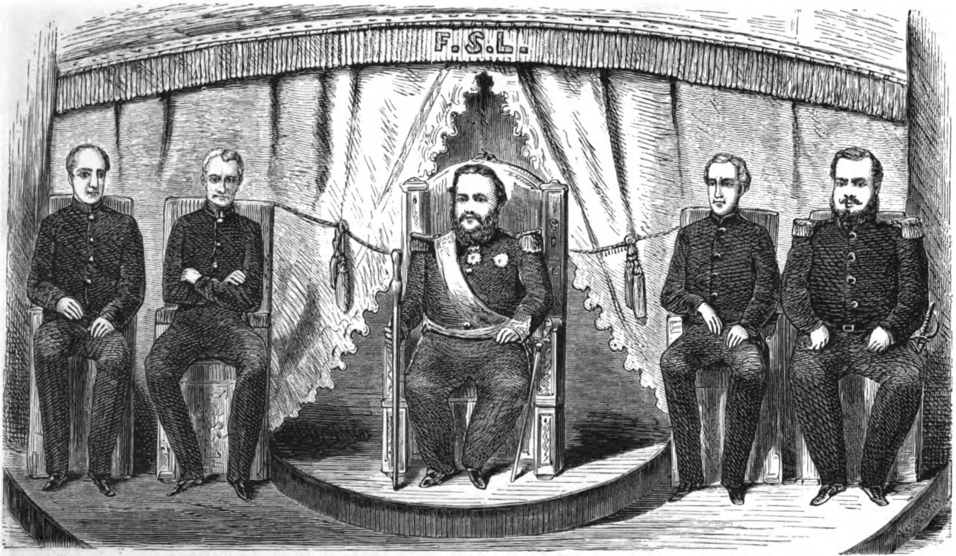 The Throne: López and his Cabinet (Gonzales, Sanchez, López, Berges & Venancio López).